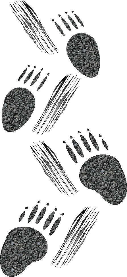 Illustration of the tracks left by Erethizon dorsatum (porcupine). Four toes on the forefeet print, and five on the hindfeet. Their quills often leave brush marks on the ground as well.